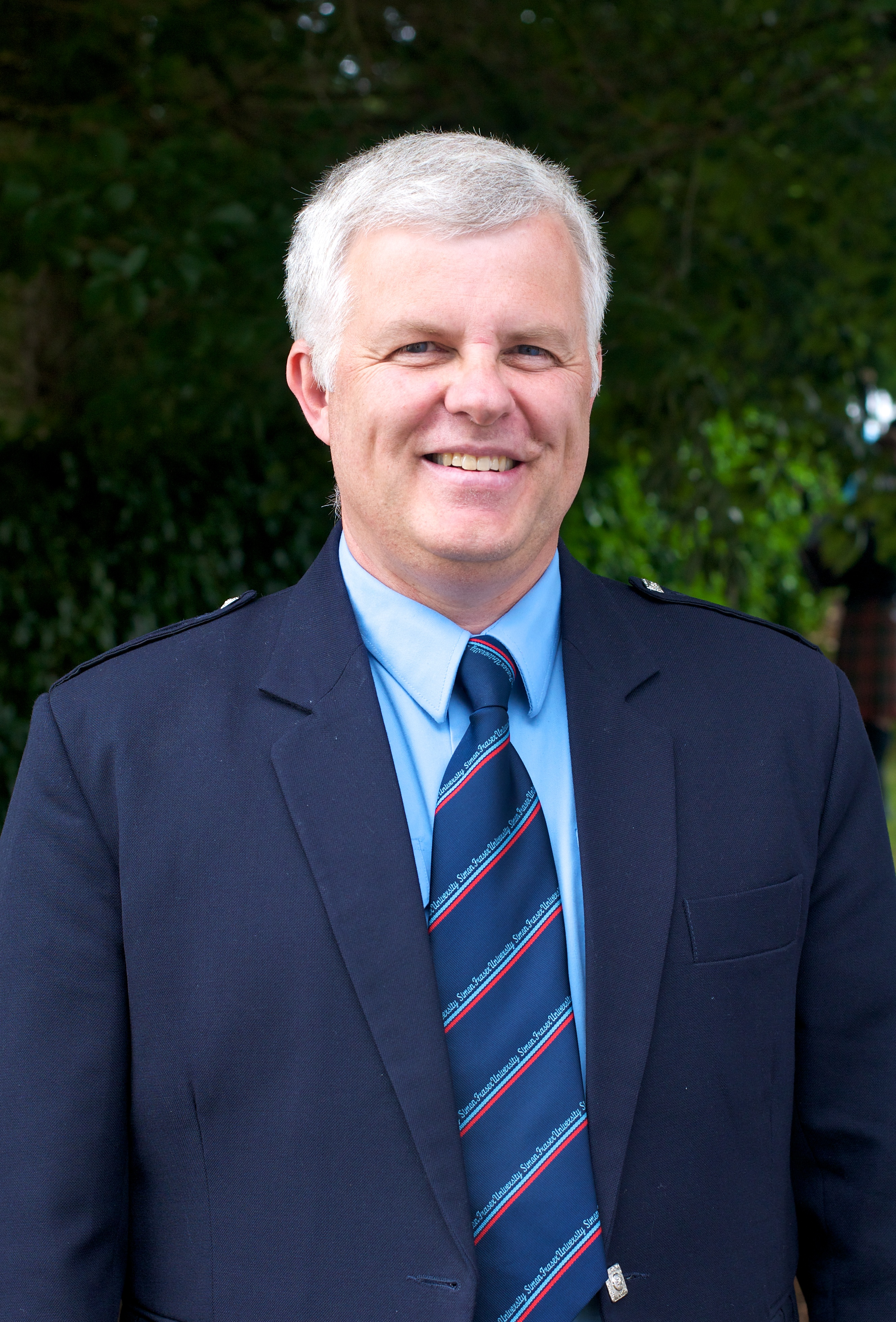 P/M Terry Lee - Coquitlam/Tri-Cities